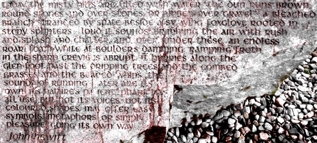 Words on the Cushendun Stone. Enhanced picture to make the words by John Hewitt more readable. "Today the misty hills are filled with water: the Dun runs brown round stones and over stones, or amber over gravel - a bleached branch stranded by spate beside a swaying foxglove rooted in stony splinters - loud it sounds, brimming the air with rush and splash and chatter, and over, under these an endless roar, foam-white at boulders damming, ramming froth in the sharp crevices abrupt. It hurries along the glen-foot past the dripping trees and the combed grasses and the beaded whins. The sounds of running water are its own, its nature's patient, pliant to all use, but not its voices, not its coloured shapes, may offer easy symbols, metaphors, or simply pleasure going its own way. john hewitt"